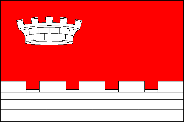 Municipal flag of Železnice town, Jičín District, Czech Republic.